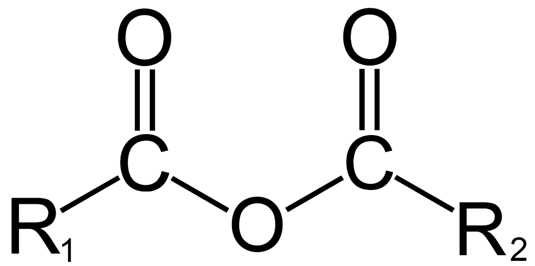 Generic Formula for Acid Anhydride